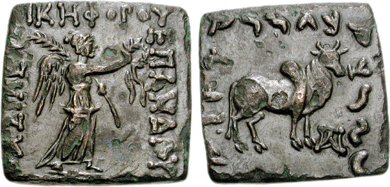 Epander square bilingual